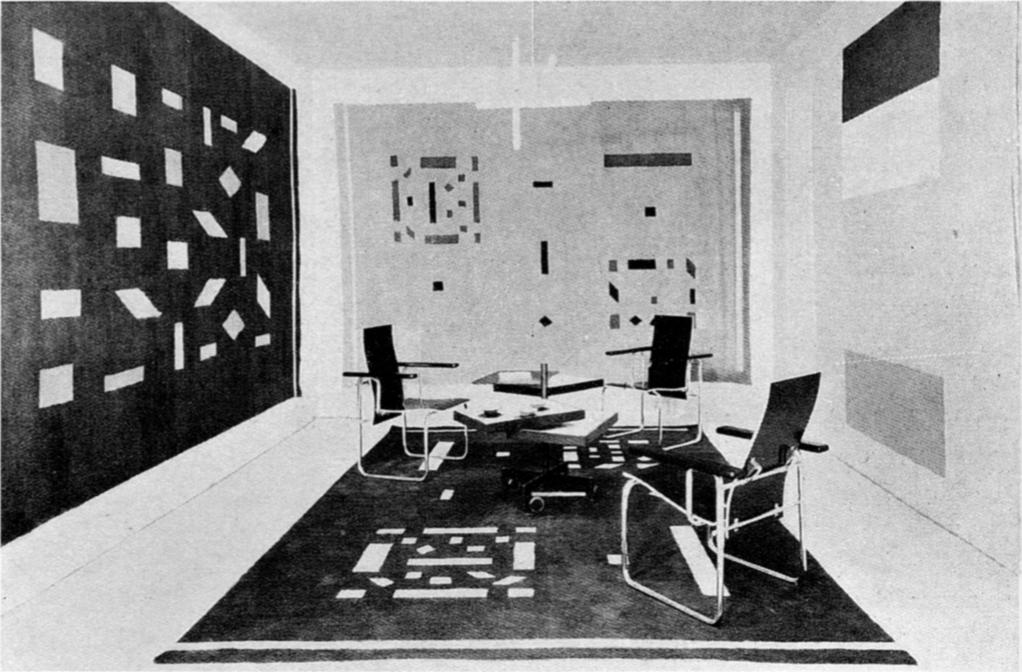 Metz & Co. showroom with wall hangings and carpet by Bart van der Leck and furniture by Gerrit Rietveld. From Mobilier et Décoration, volume 10, no. 7 (july 1930).